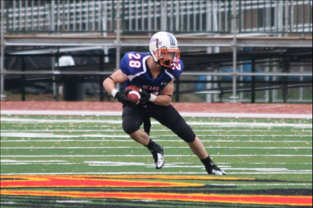 American football in Guelph, Ontario, Canada. Guelph Bears